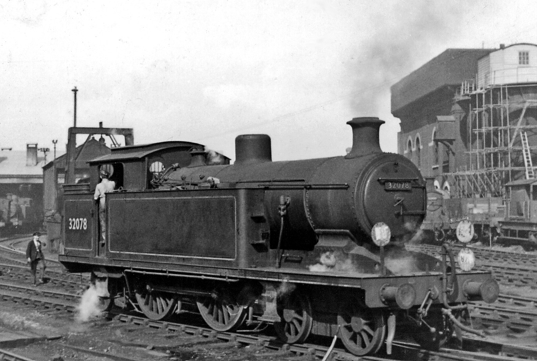 Ex-LB&SC 4-4-2T in Brighton Locomotive Yard. View from the end of Platform 1 at Brighton Station, which conveniently curved round there on the line towards Hove. The Marsh I3 class 4-4-2T No. 32078 was built 11/1910 and withdrawn 1/51. Even after electrification of most of the SR Central Section, Brighton (coded 75A under BR(SR) remained its principal Depot with a 1950 allocation of 60 steam locomotives.